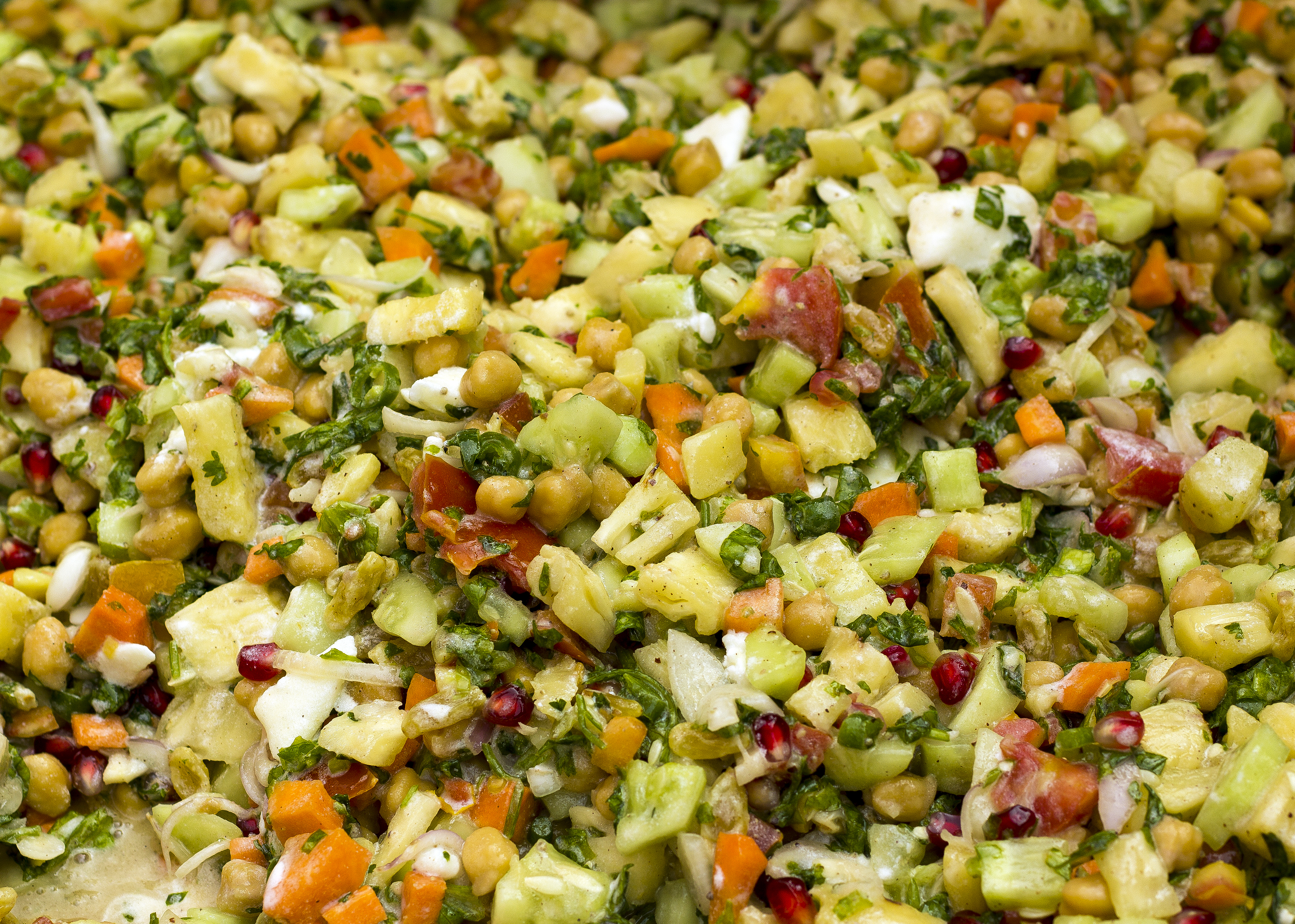 Mixed Fruit Salad